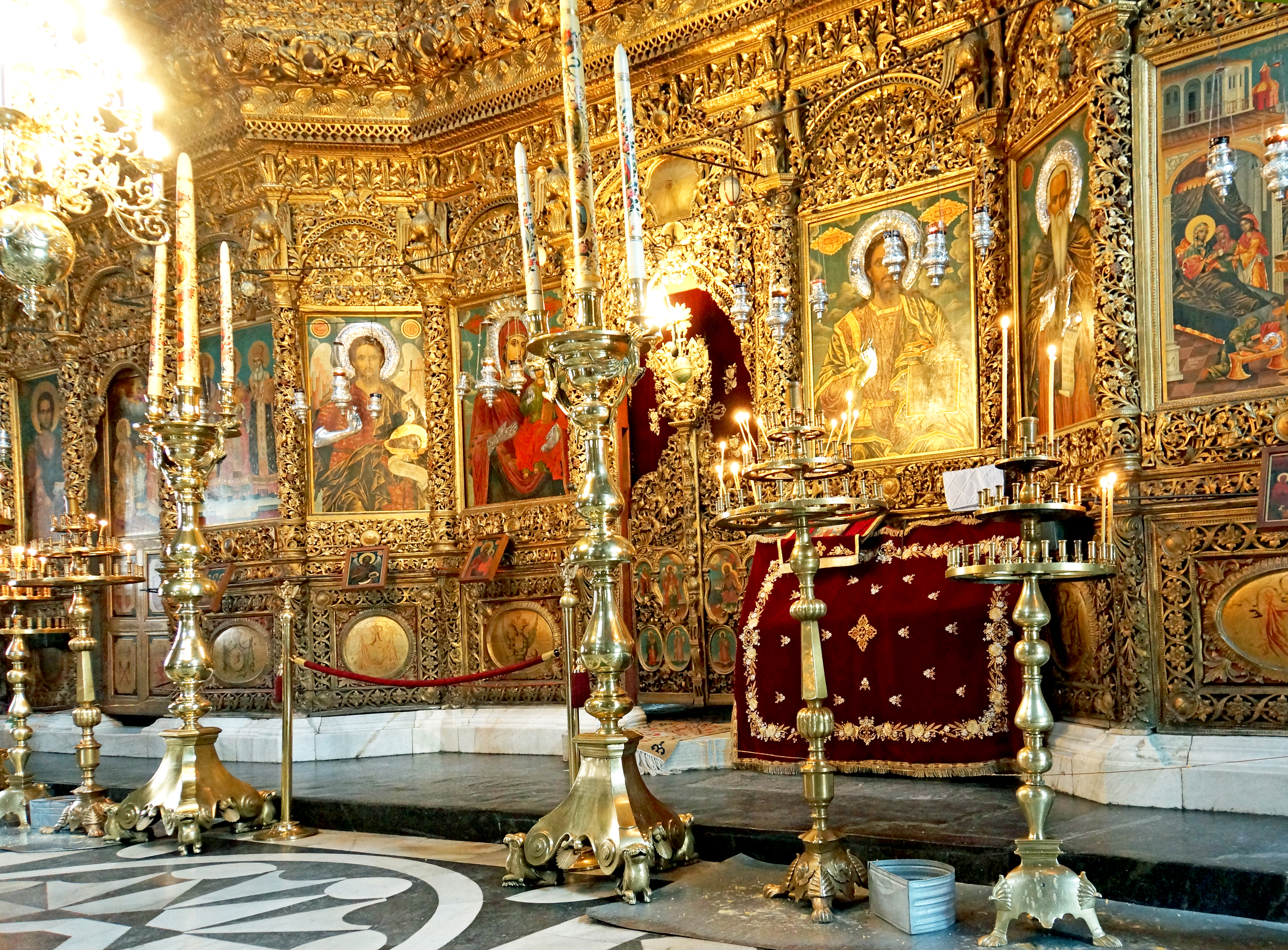 PLEASE, NO invitations or self promotion in your comments, THEY WILL BE DELETED. My photos are FREE for anyone to use, just give me credit and it would be nice if you let me know, thanks - NONE OF MY PICTURES ARE HDR. The main church of the monastery was erected in the middle of the 19th century. Its architect is Pavel Ioanov, who worked on it from 1834 to 1837. The church has five domes, three altars and two side chapels, while one of the most precious items inside is the gold-plated iconostasis, famous for its wood-carving, the creation of which took five years to four handicraftsmen. The frescoes, finished in 1846, are the work of many masters. The church is also home to many valuable icons, dating from the 14th to the 19th century. The church preserves the coffin, under the red covering, with the relics of the founder of the monastery St. Ivan of Rila.